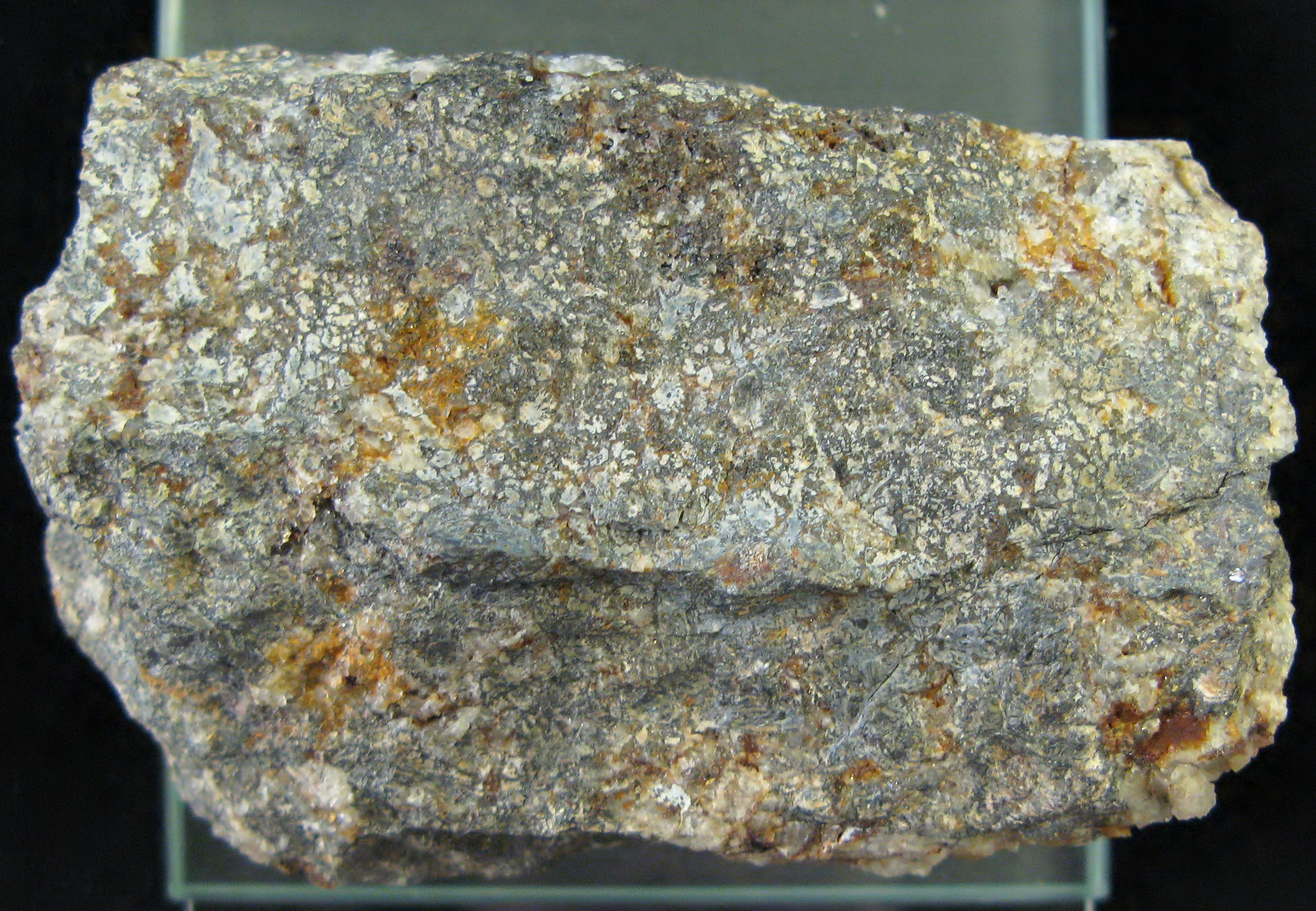 Bismutite - Locality: Schneeberg, Erzgebirge, Germany - Exposed in the Mineralogical Museum, Bonn, Germany